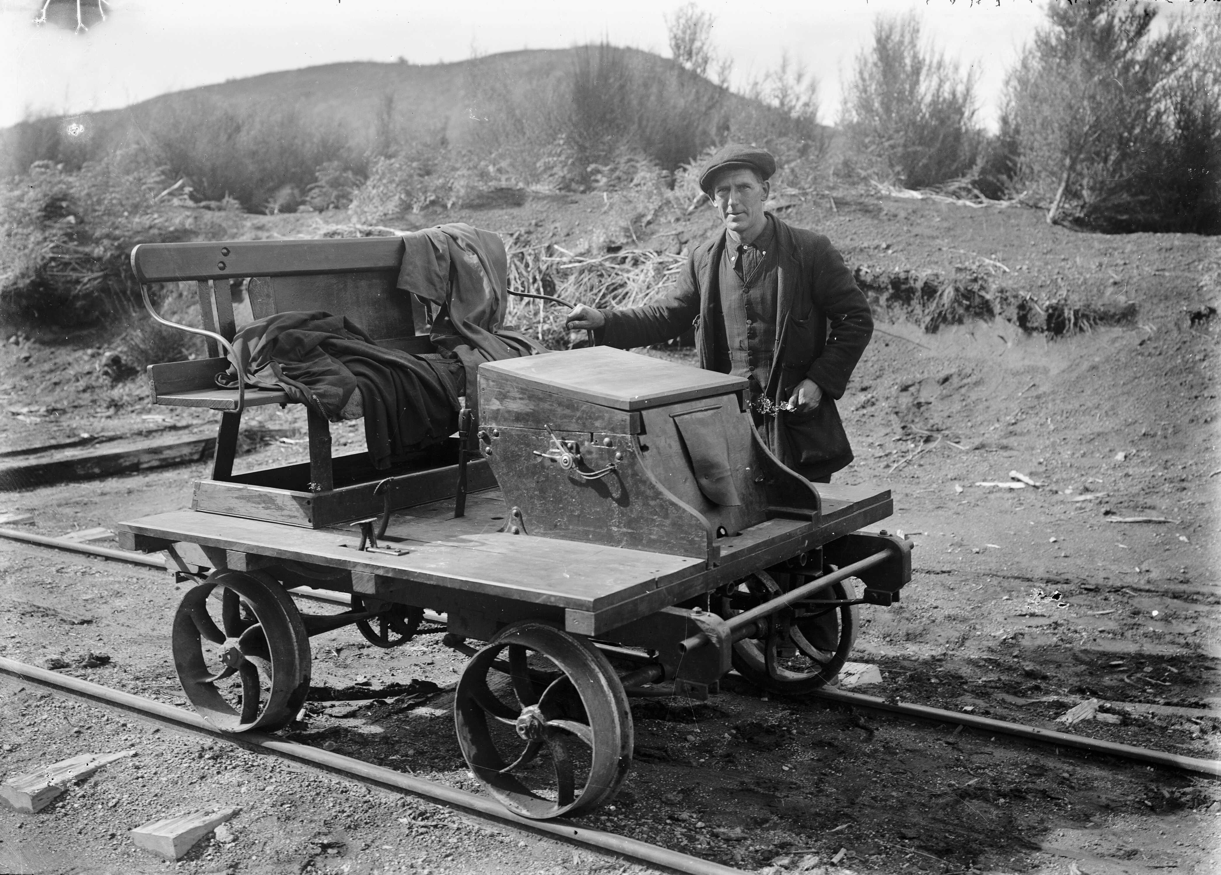 Inspection trolley (railway handcar, or jigger) used by the Taupo Totara Timber Company, of Mokai, 1923. H Taylor stands alongside. Photograph taken by Albert Percy Godber.